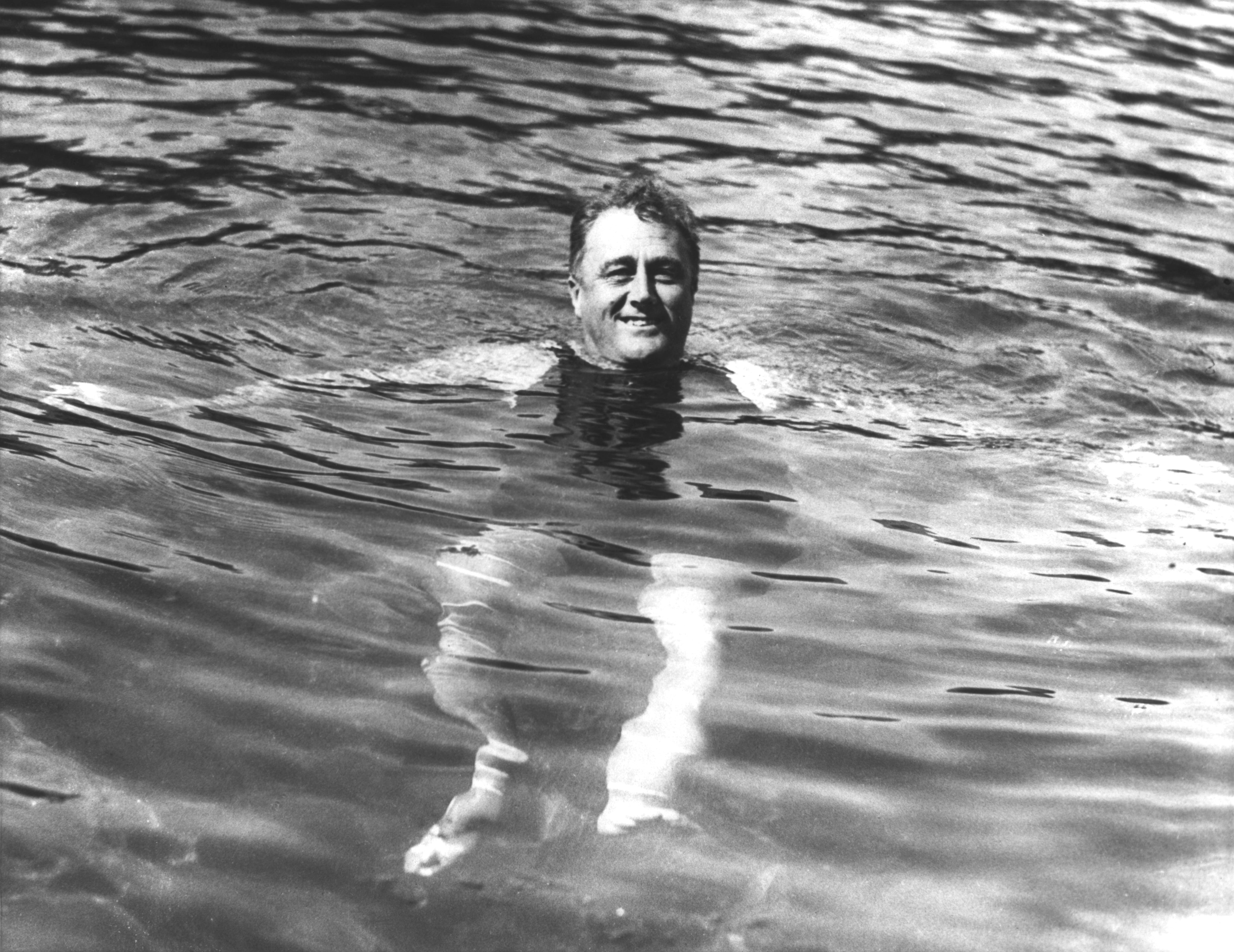 FDR swimming in a Warm Springs, GA pool. 1929